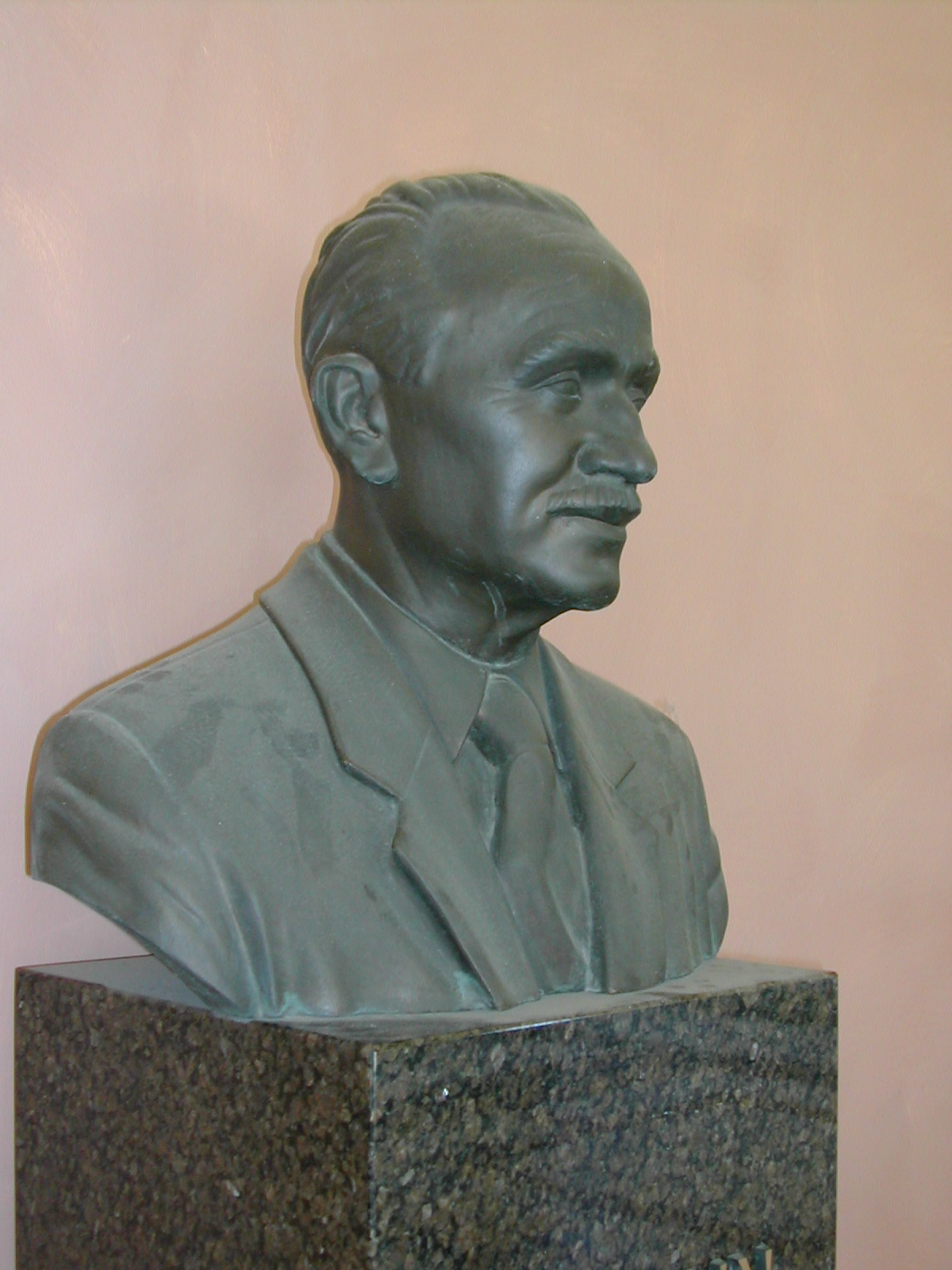 Johann Radon, Austrian mathematician, memorial at University of Vienna